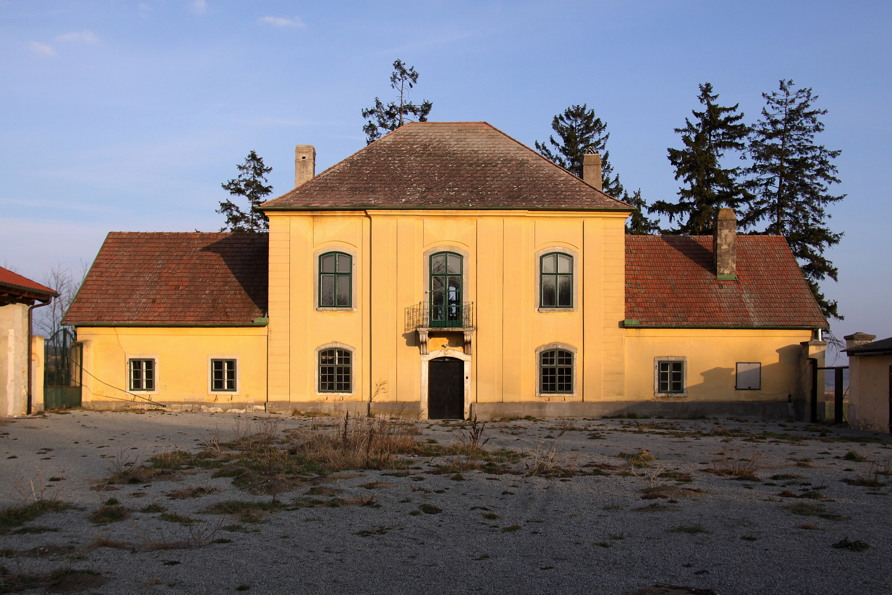 Jagdschloss Stinkenbrunn - Steinbrunn. Object location47° 50′ 58.48″ N, 16° 25′ 02.92″ E